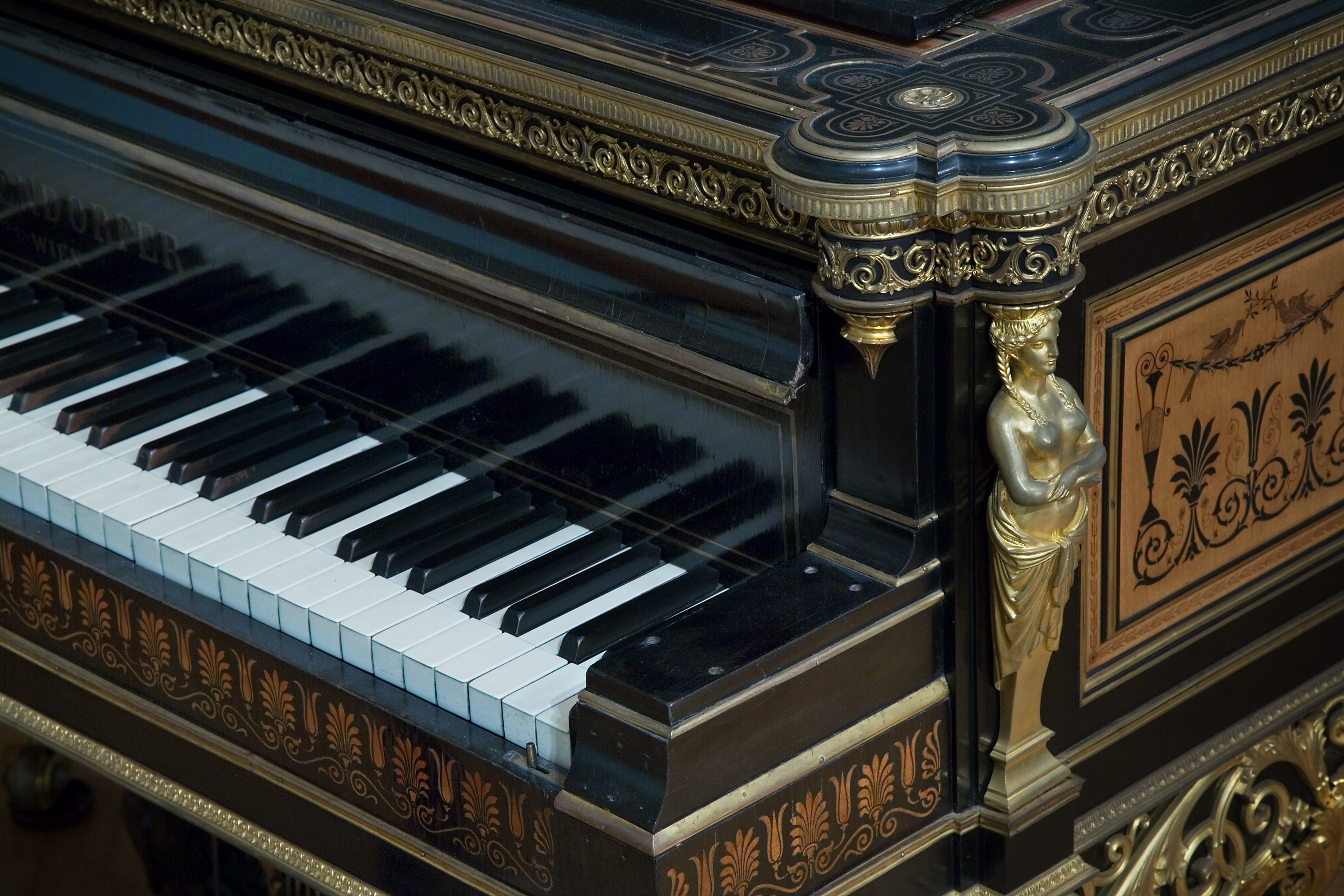 Bosendorfer grand piano keyboard detail